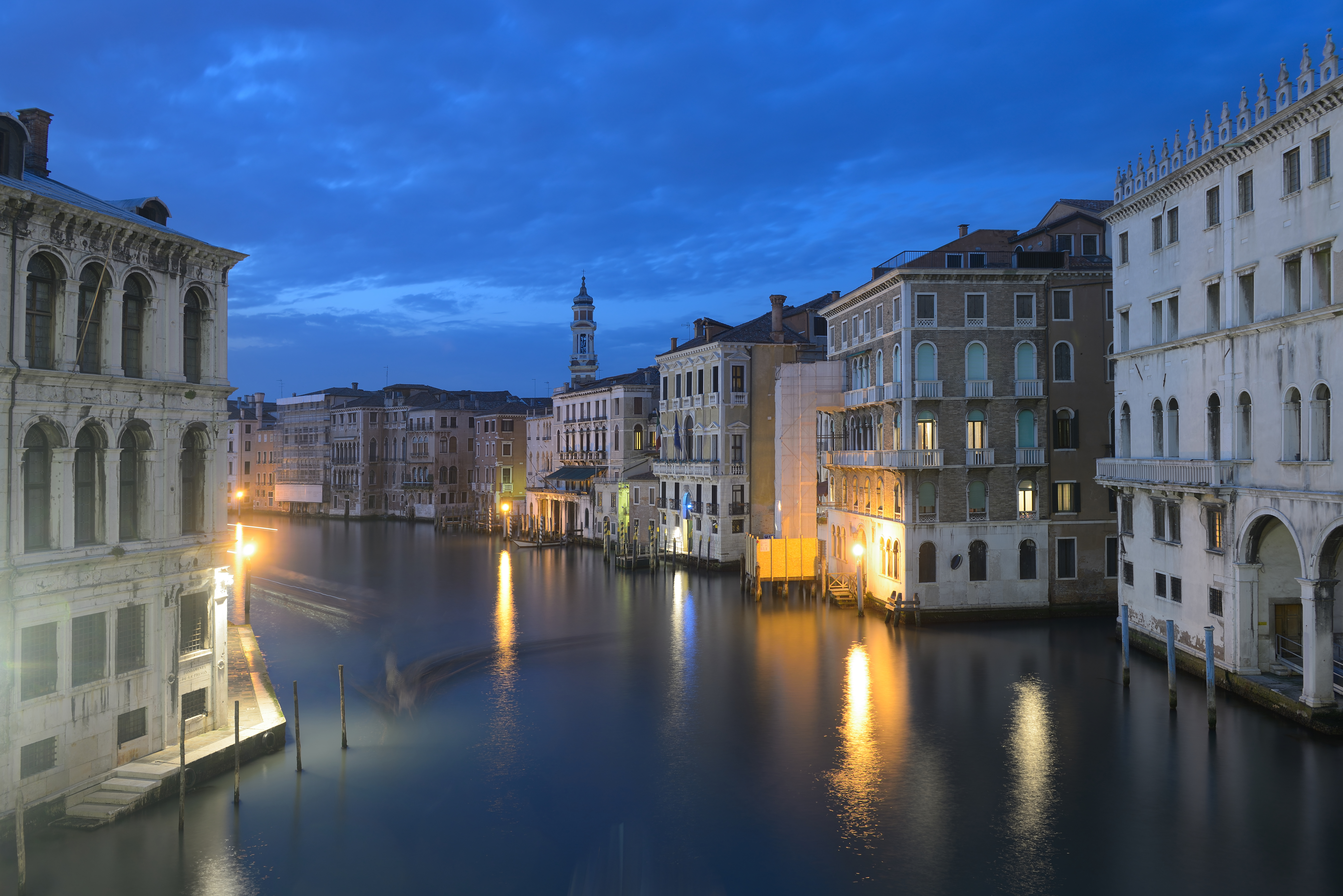 View from the Rialto bridge: the Palazzo dei Camerlenghi on the left, the Fondaco dei Tedeschi on the right in Venice.